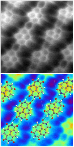 Top: Constant height non-contact atomic force microscopy image of a hydrogen-bonded naphthalene tetracarboxylic diimide (NTCDI) island on the Ag:Si(111)-(√3 x √3) R30° surface acquired at 77 K. Image size 2.1 by 2.0 nm (oscillation amplitude, 275 pm). Bottom: model (Colour coding: grey, carbon; white, hydrogen; red, oxygen; blue, nitrogen)